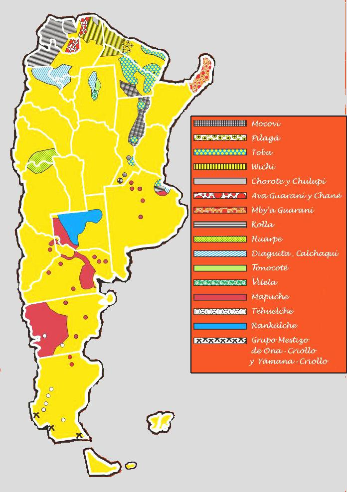 Indigenous peoples of the Argentina